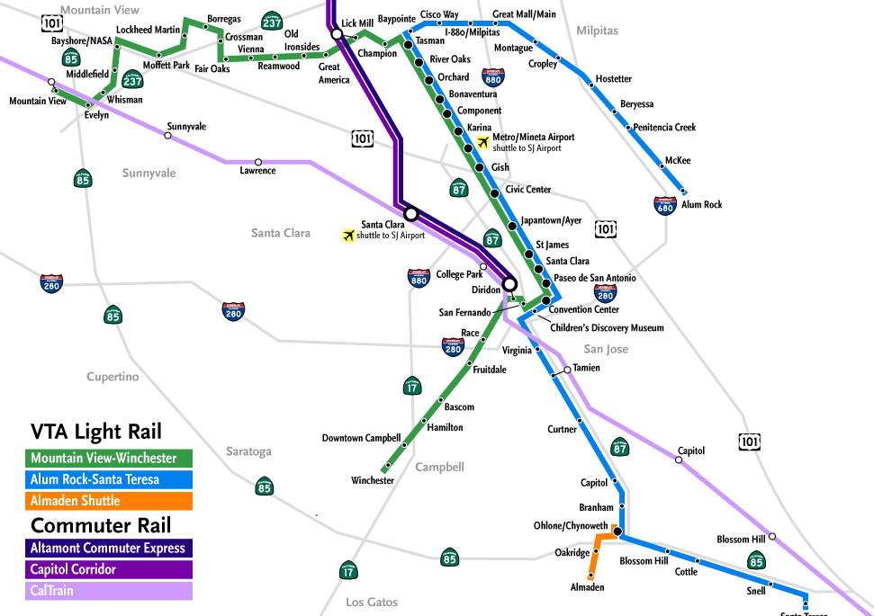 Map of the VTA Light Rail network